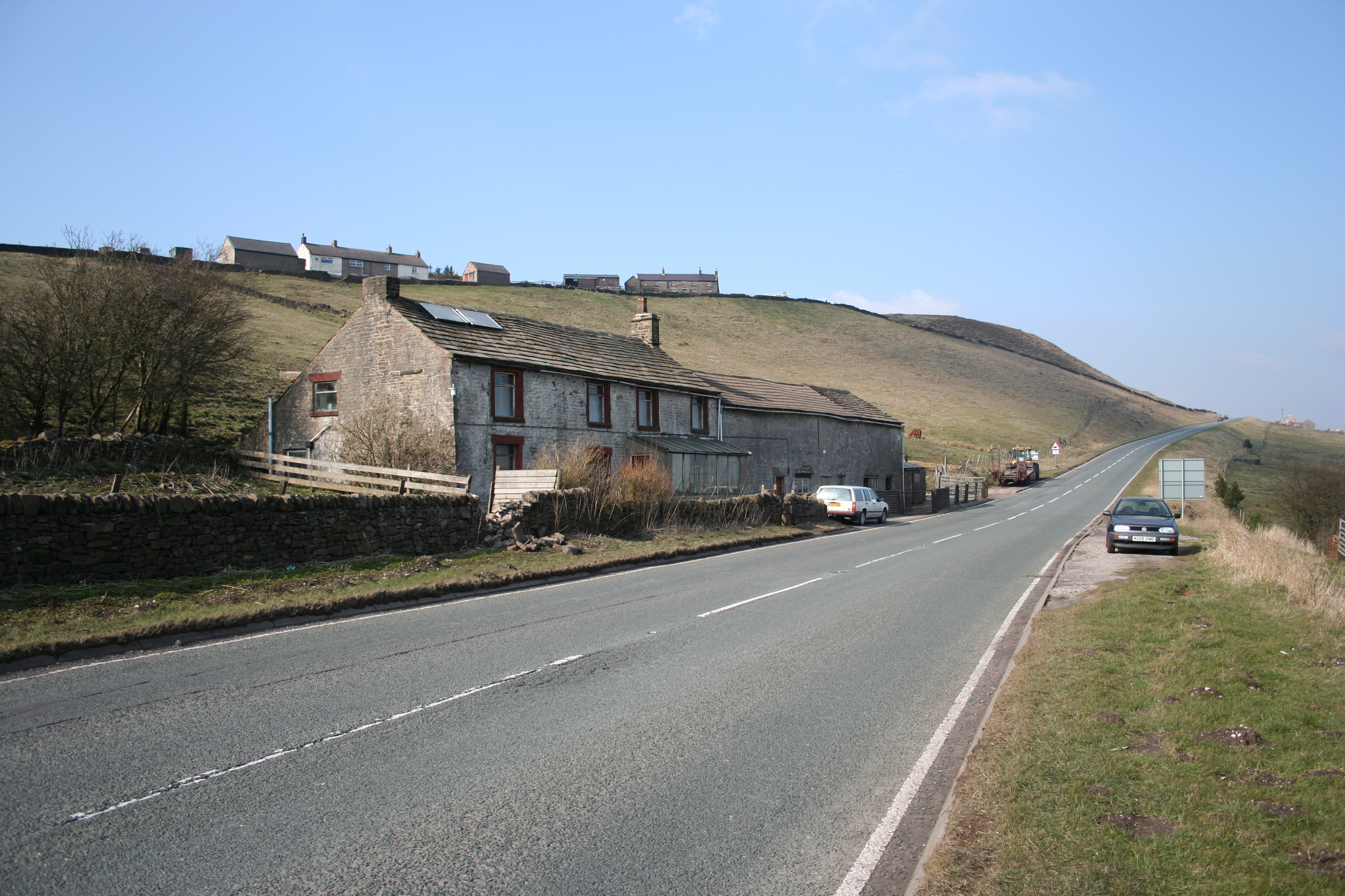 Dove Head Farm and A53 Looking towards Buxton on the A53. The source of the River Dove lies below this farm (on the right-hand side of the road). On the skyline are the cottages of Axe Edge End.